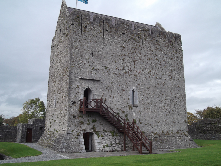 Douglas P. Bermingham